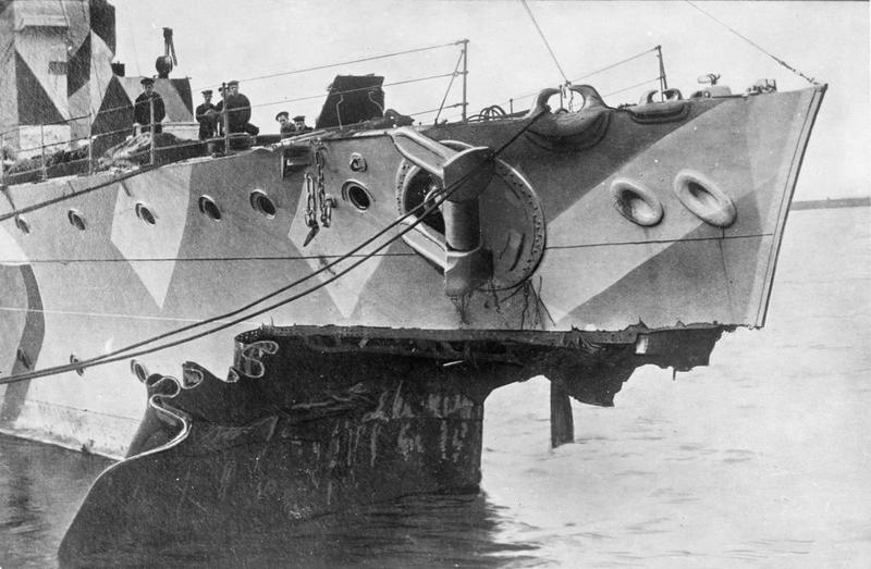 The damaged bow of HMS Fearless after ramming the submarine HMS K17, 31 January 1918